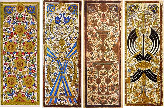 16th-century Mamluk playing cards (kanjifah). From left to right: 6 of coins, 10 of polo sticks, 3 of cups (called "myriads"), and 7 of swords.